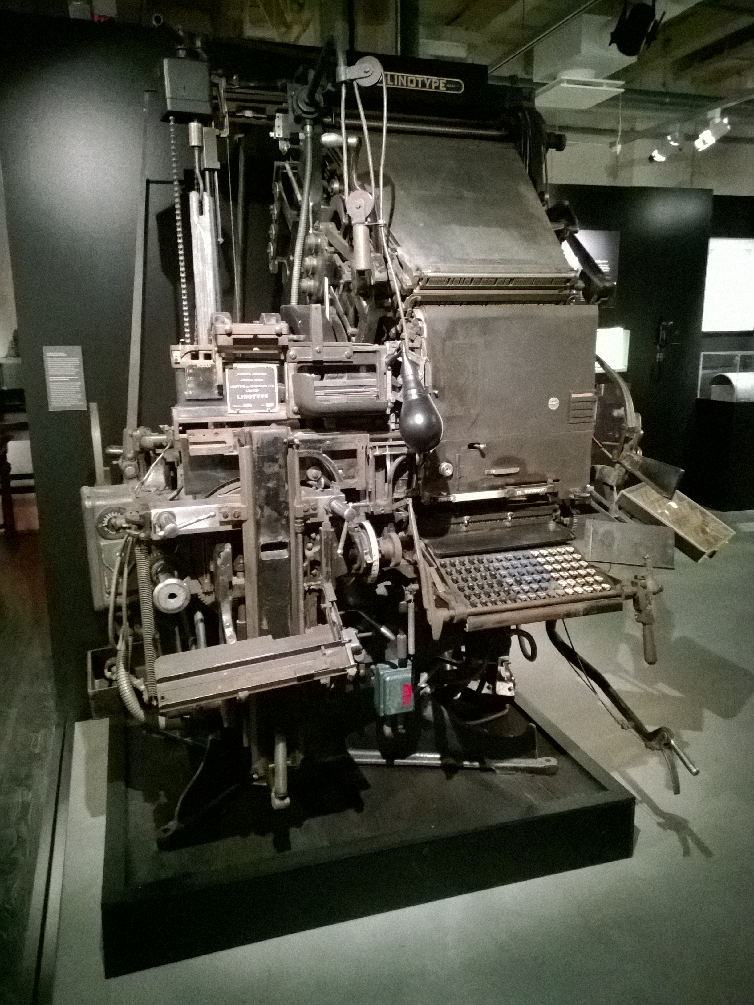 Linotype "line casting" machine in Rupriikki Media Museum, Tampere, Finland. The machine was used by the local newspaper Aamulehti in 1950's.